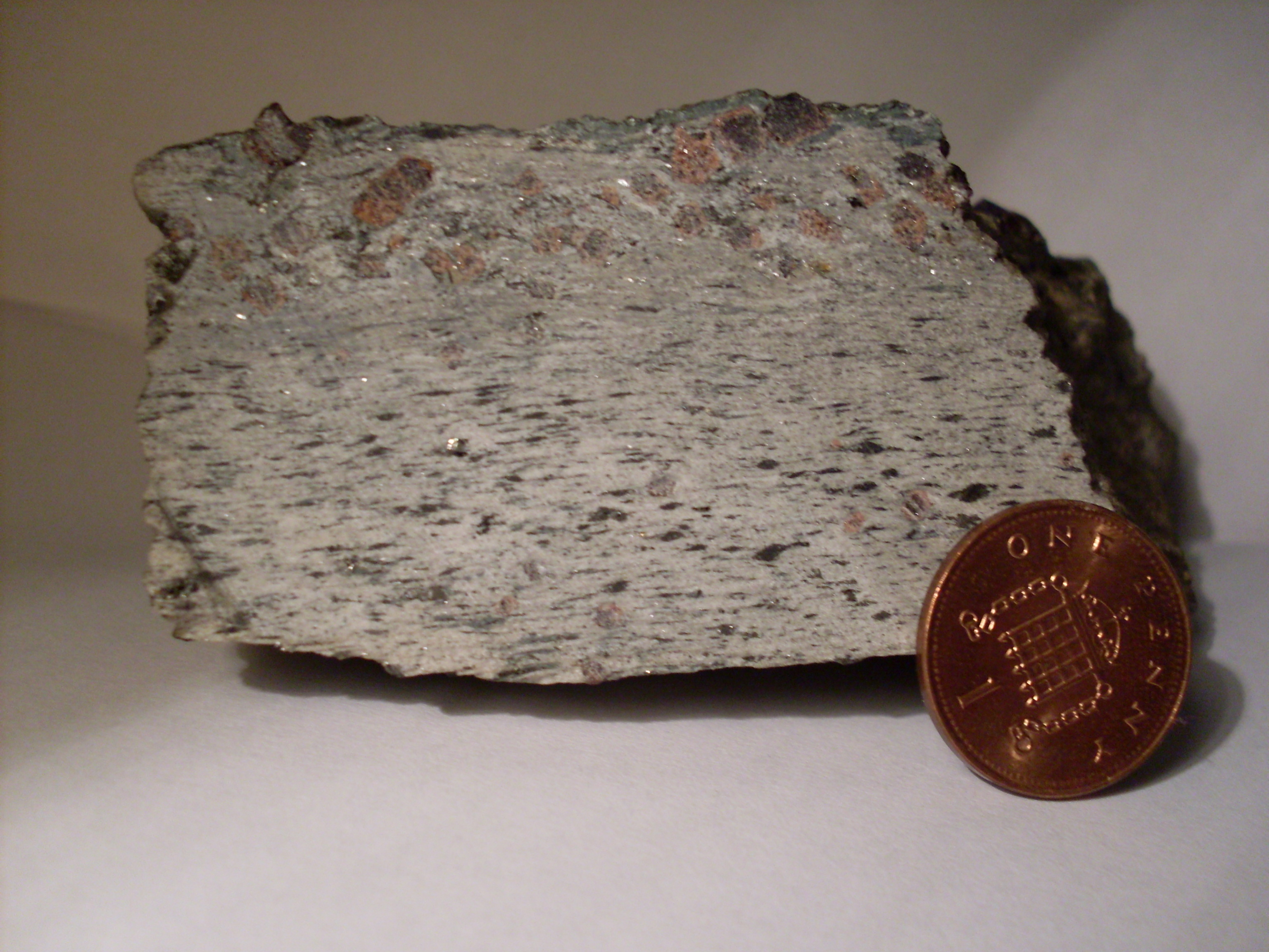 Garnet Mica Schist from Salangen, Norway. showing the crenulation cleavage associated with the deformation event. This Schist was formed during the Caledonian Orogeny. Penny Coin for scale